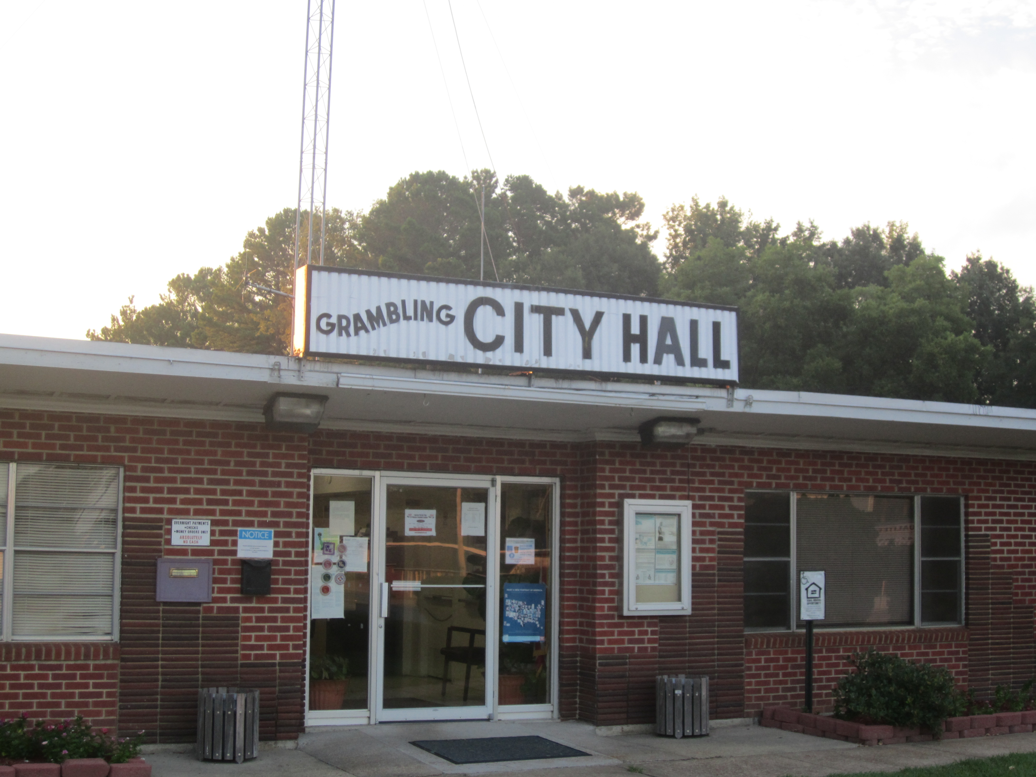 I took photo in Grambling, LA, with Canon camera.